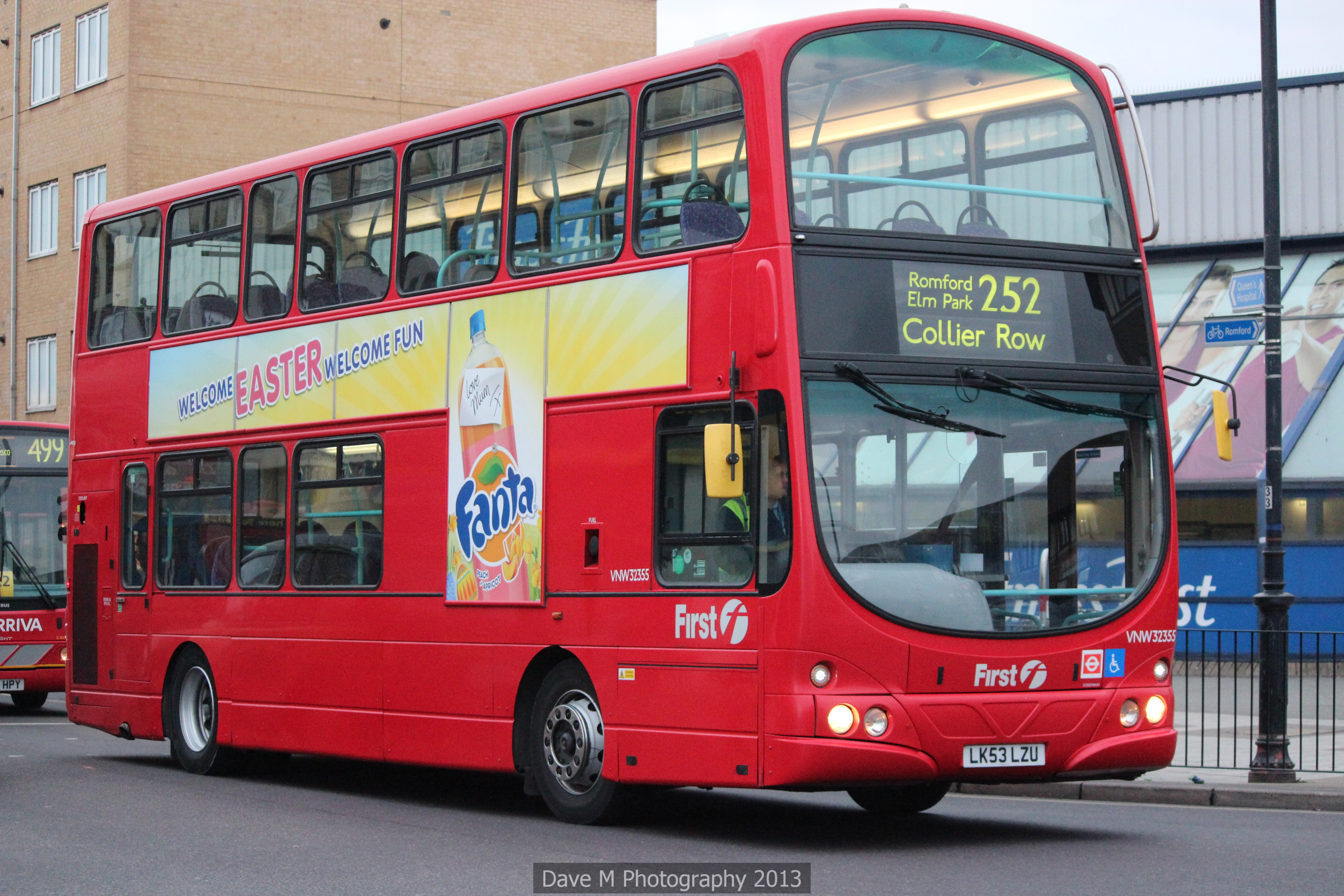 First London Wright Eclipse Gemini bodied Volvo B7TL (LK53 LZU, VNW32355) on route 252 in March 2013